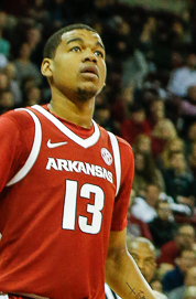 Photo by Chris Gillespie